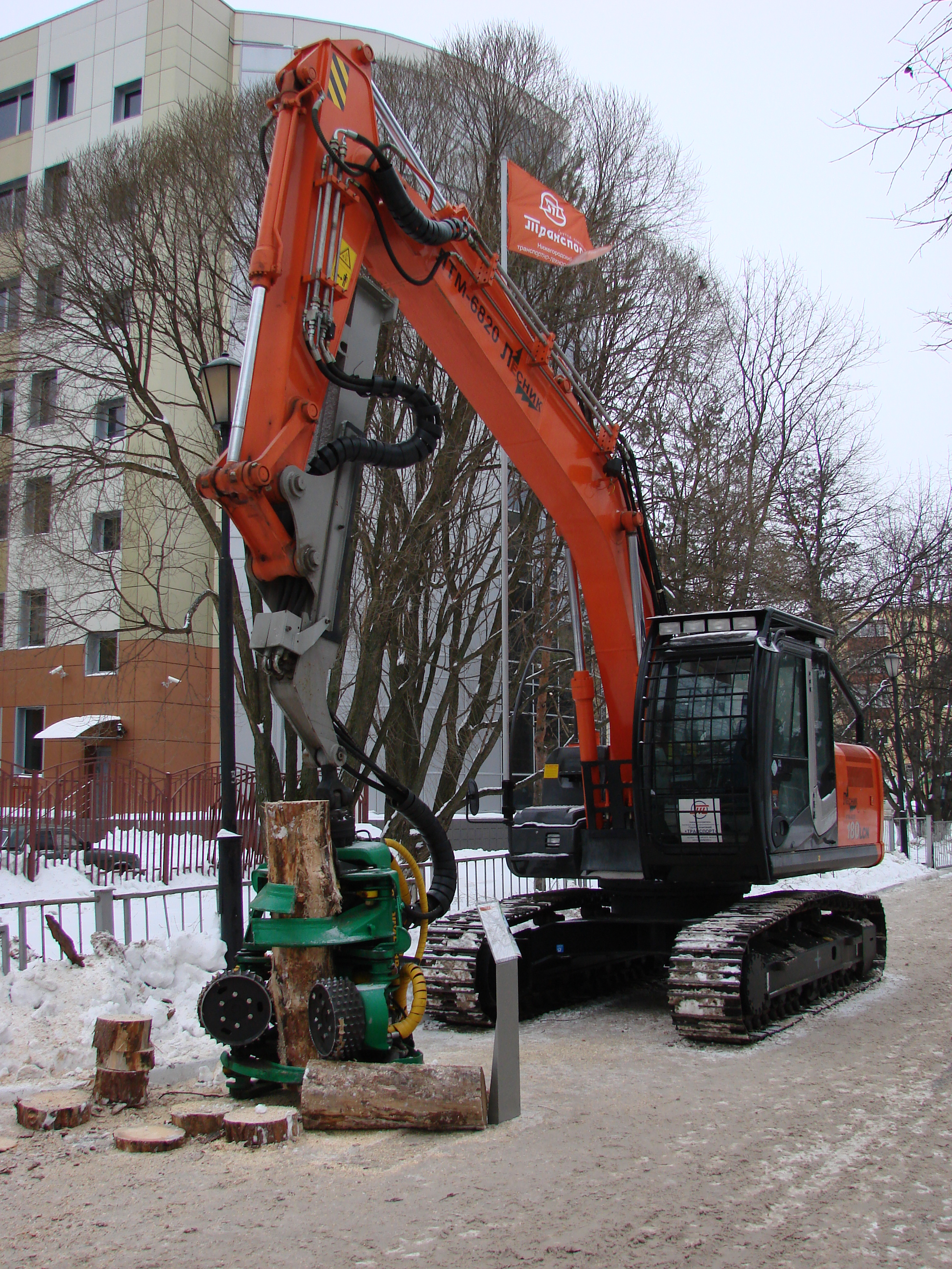 Russia, Vologda, Exhibition-Fair «Russian forest», harvester LTM-6820